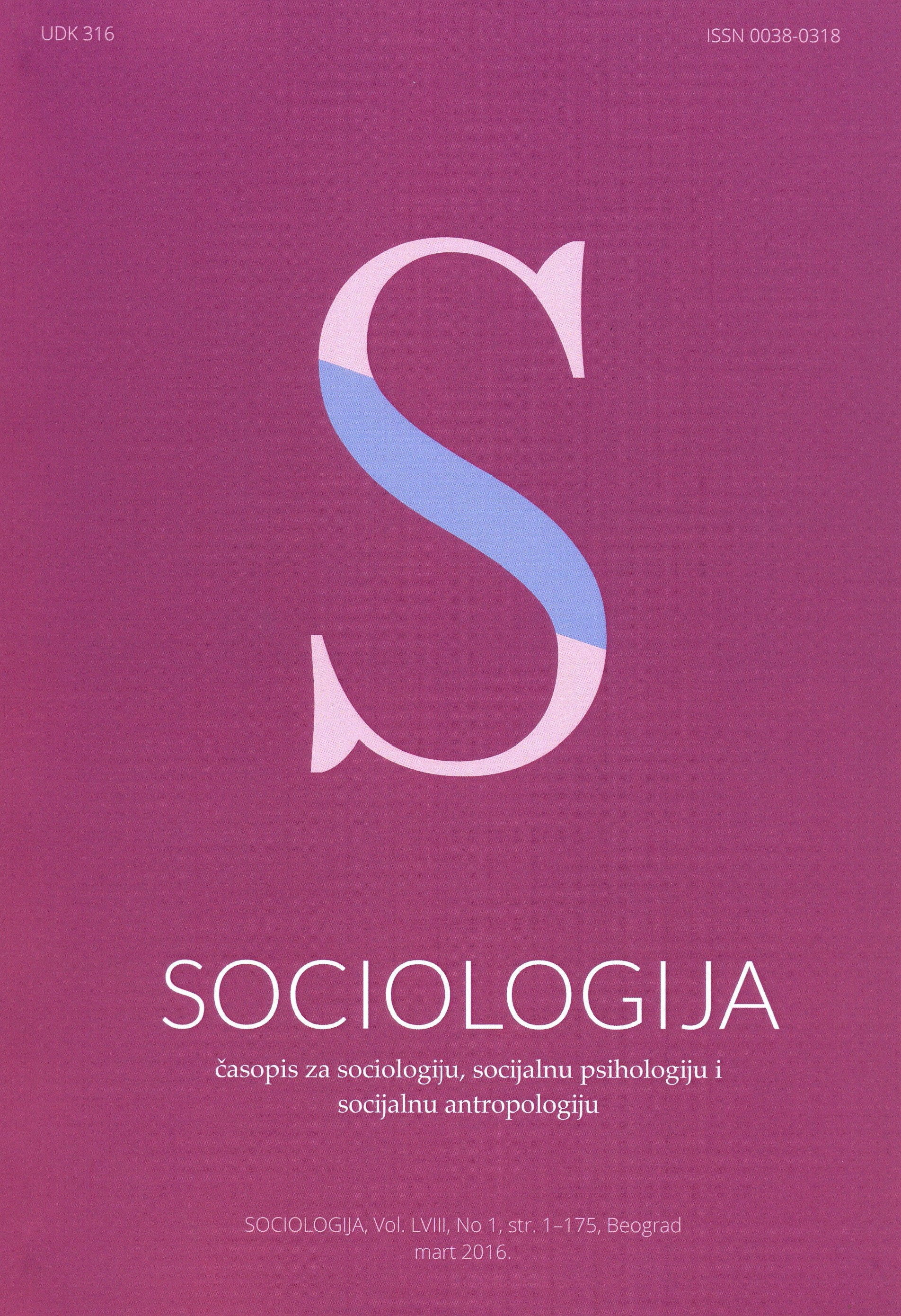 Serbia and Montenegro Sociological Association Journal Sociology